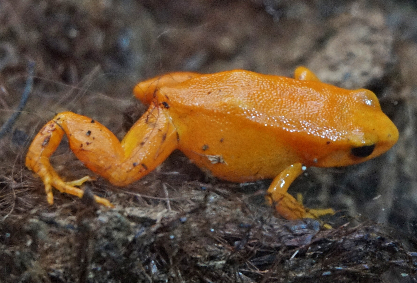 Frog in Genoa Aquarium. This photograph was taken with a Sony Alpha a5000.